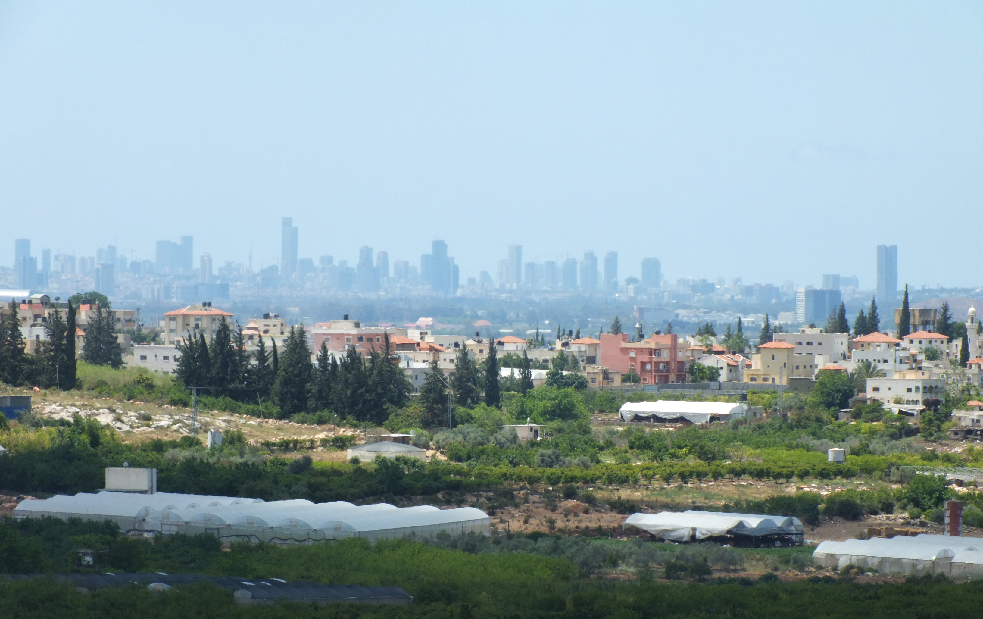 Hable, a Qalqilya suburb that lies right on the border with Israel. The town is absurdly detached from Qalqilya by Israel’s internationally-acknowledged (illegal) intrusive settlement policy, which deliberately interrupts the area contiguity of these two Palestinian communities by a set of fences, “civil” posts and arbitrary commuting prevention that prevails within the broader occupied Samaria.